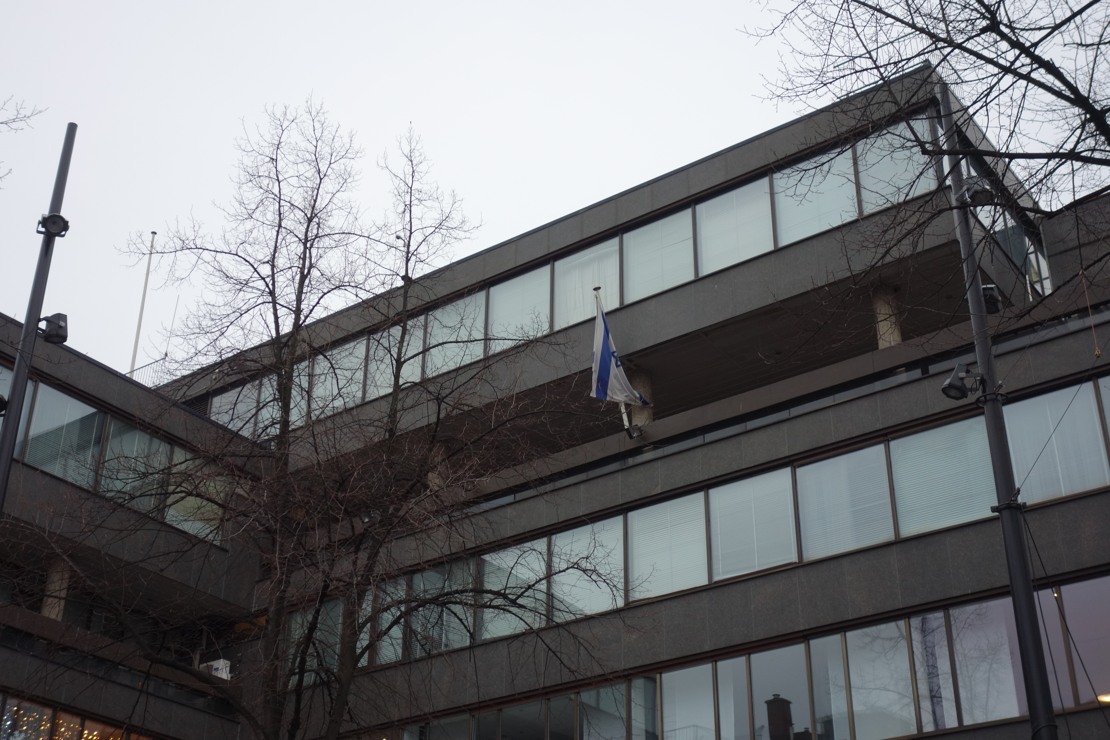 Embassie of Israel in The Hague